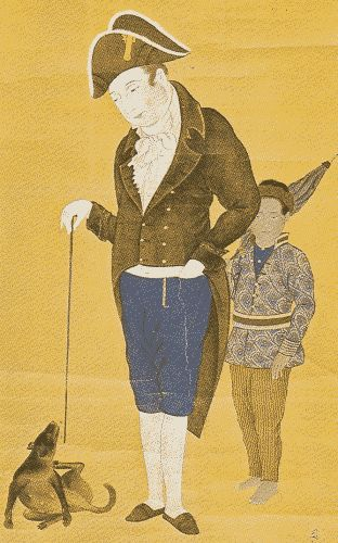 Japanese painting of Hendrik Doeff, beginning of the 19th century.